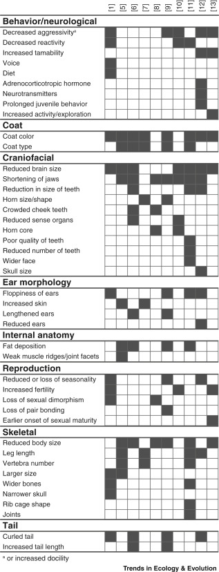 Figure 1. No Consistent Set of Traits Defines Domestication Syndrome.